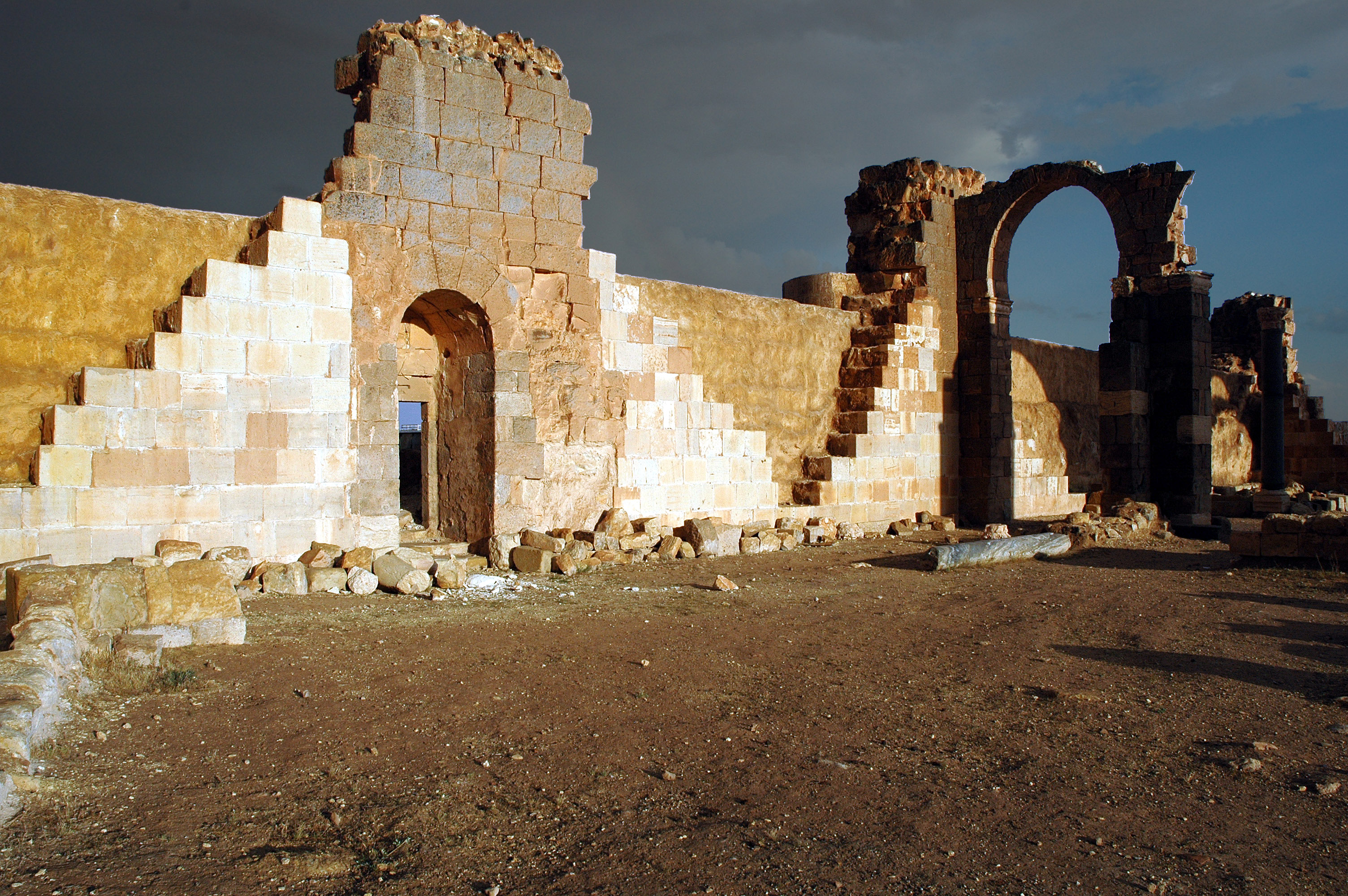 Omayyad palace, Qasr al-Heir al-Sharqi in 2004